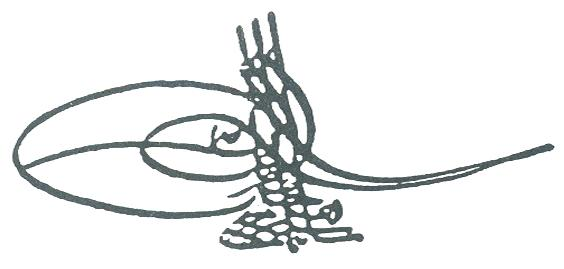 Tughra (i.e., seal or signature) of Suleiman II, Sultan of the Ottoman Empire (1687-1691). An explanation of the different elements composing the tughra can be found here.